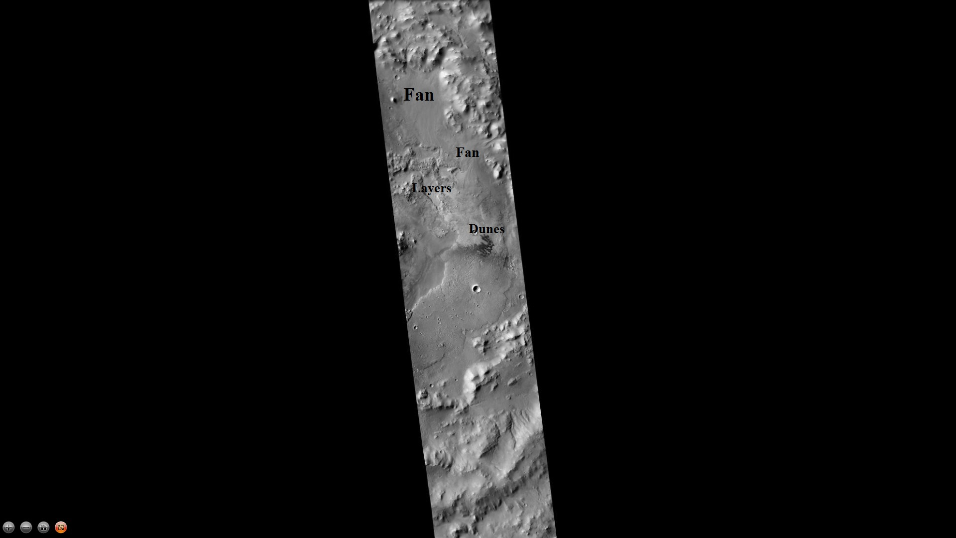 Jones Crater, as seen by ctx